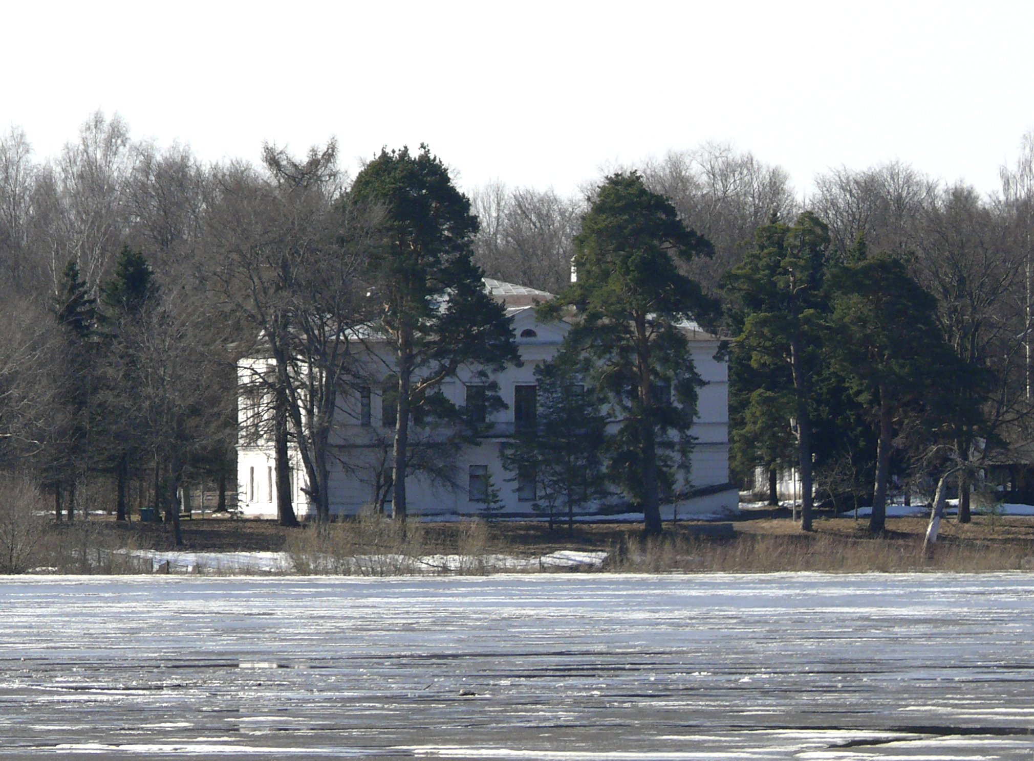 The House of Orlova-Chesmenskaya in Vitoslavlitsy village. Veliky Novgorod, Russia